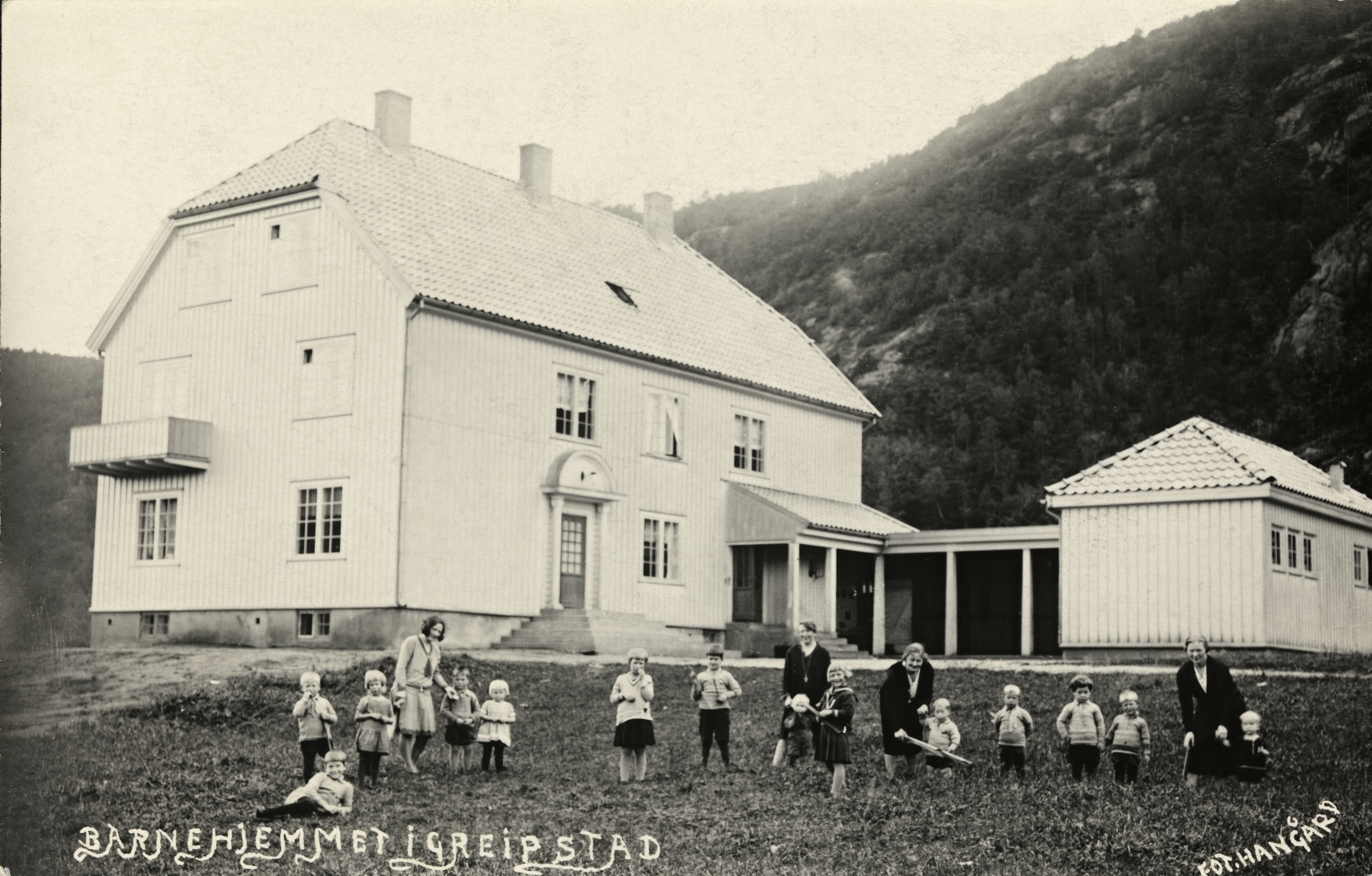 Beskrivelse / Description: Barnehjemmet ble opprettet i 1929 og tilhørte Den norske omstreifermisjonen. Dato / Date: ca. 1930-1936 Sted / Place: Vest-Agder, Songdalen, Greipstad Fotograf / Photographer: Ole Hangaard (Hangård) Digital kopi av original / Digital copy of original: sv/hv postkort, sølvgelatin Eier / Owner Institution: Nasjonalbiblioteket / National Library of Norway Lenke / Link: Bildesignatur / Image Number: blds_08986